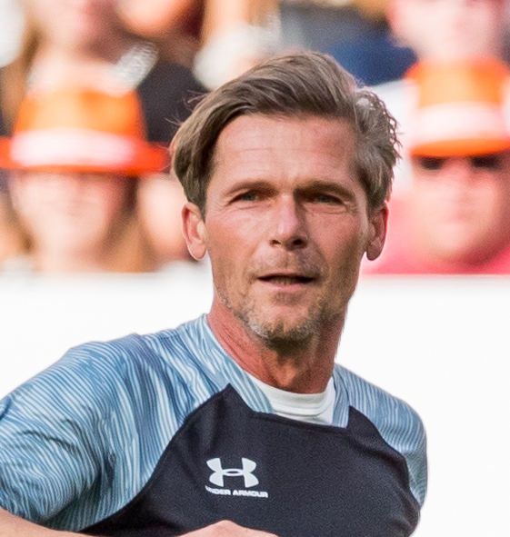 Dariusz Wosz during Champions for Charity at BayArena, Leverkusen, Nordrhein-Westfalen, Germany on 2019-07-21, Photo: Sven Mandel